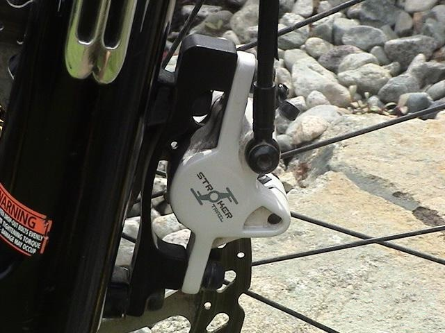 Hayes Brake "Stroker Trail" model of bicycle brake caliper.